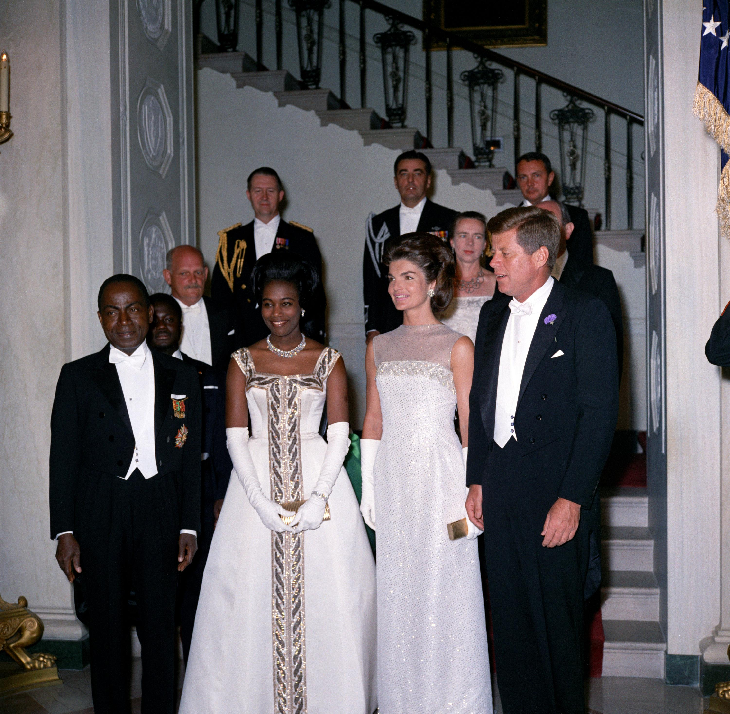 White House reception on May 22 1962. Front row, left to right: Côte d'Ivoire President Félix Houphouët-Boigny, his wife Marie-Thérèse Houphouët-Boigny, United States First Lady Jacqueline Kennedy, and her husband US President John F. Kennedy.